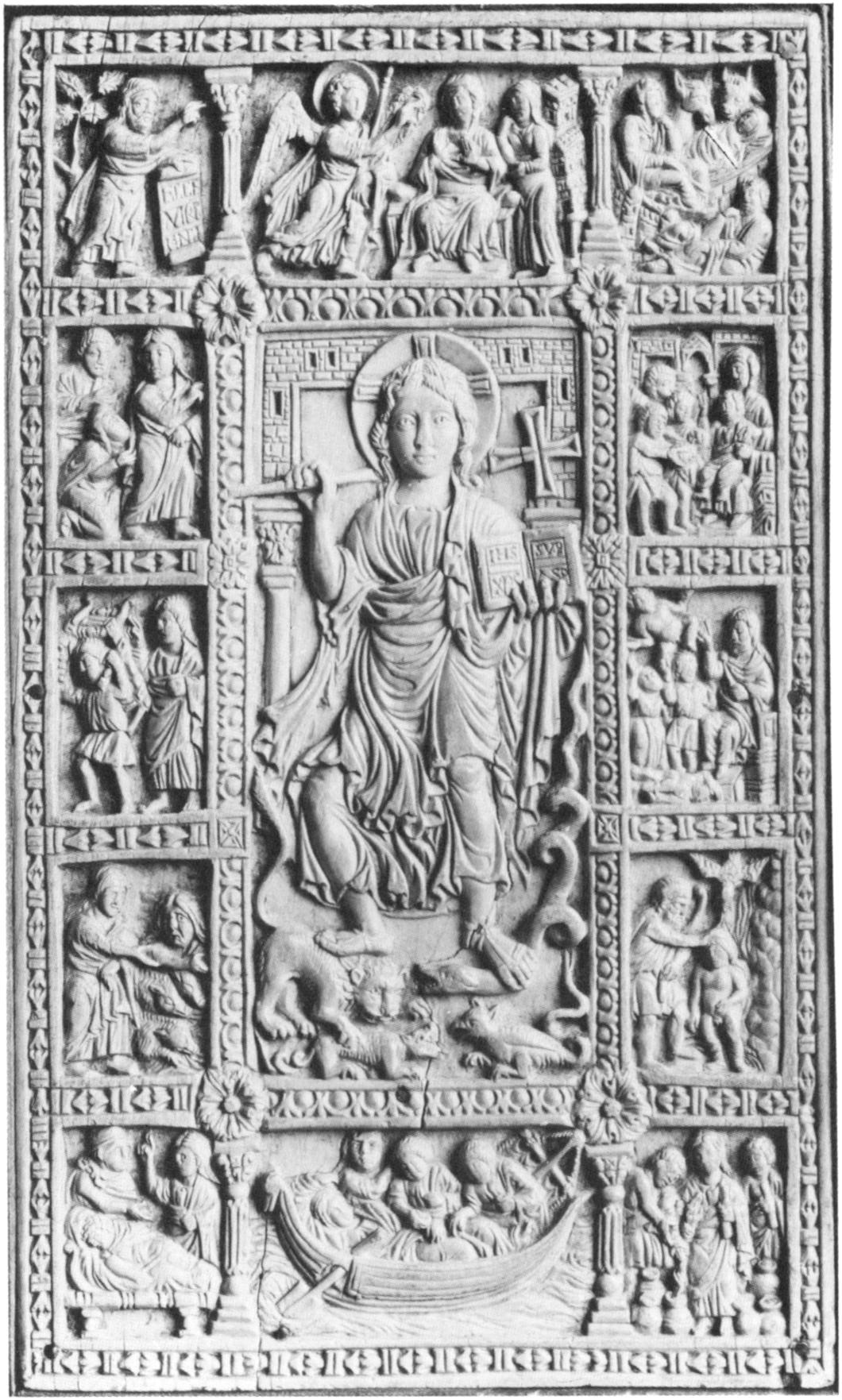 Ivory book cover with scenes from the life of Christ, Shelfmark: MS Douce 176, 21,1x12,4 cm